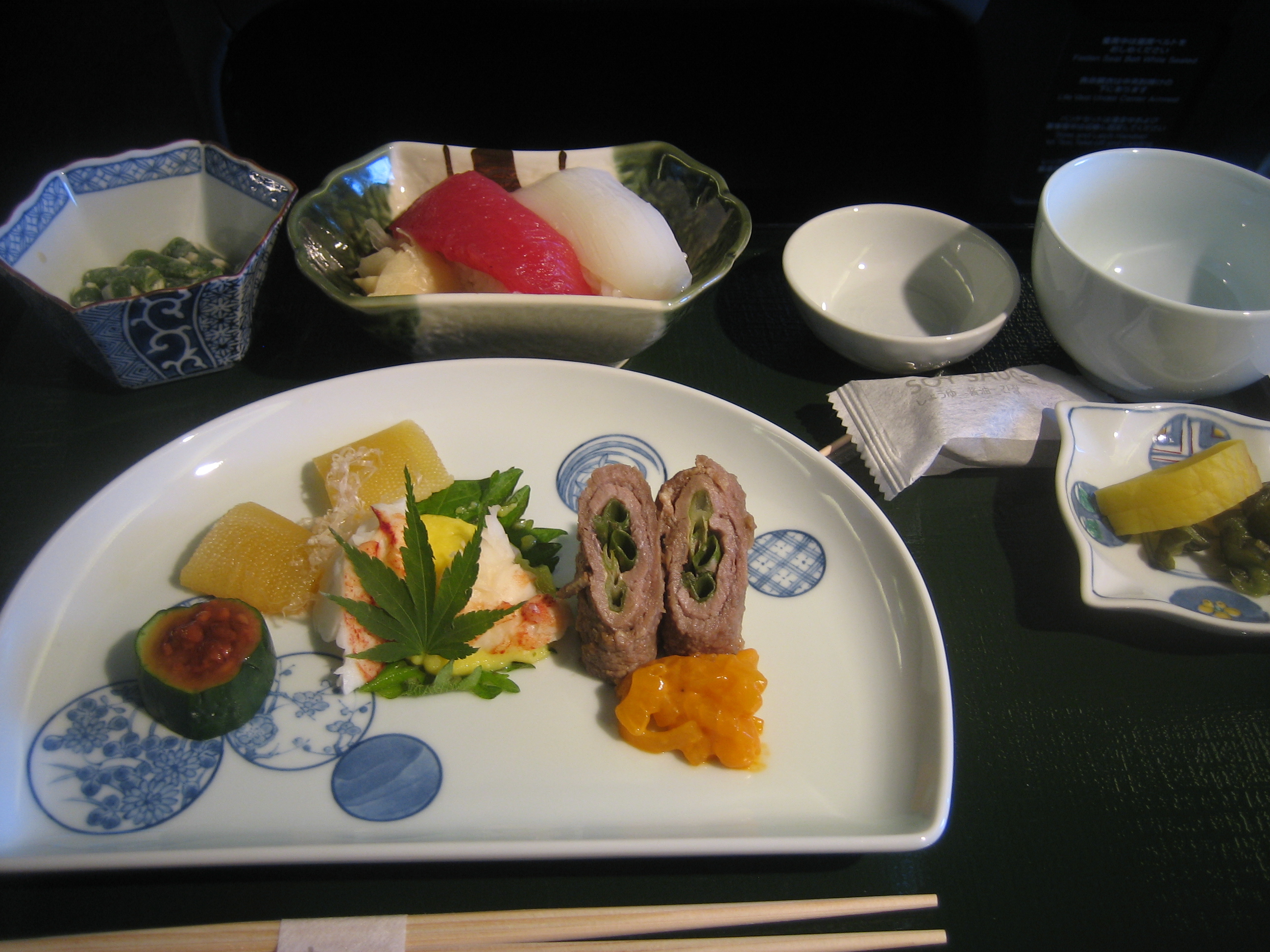 Grilled lobster with egg yolk sauce, grilled beef roll with welsh onion, mixed squid with sea urchin sauce, marinated herring roe, cucumber with miso paste PEK to NRT